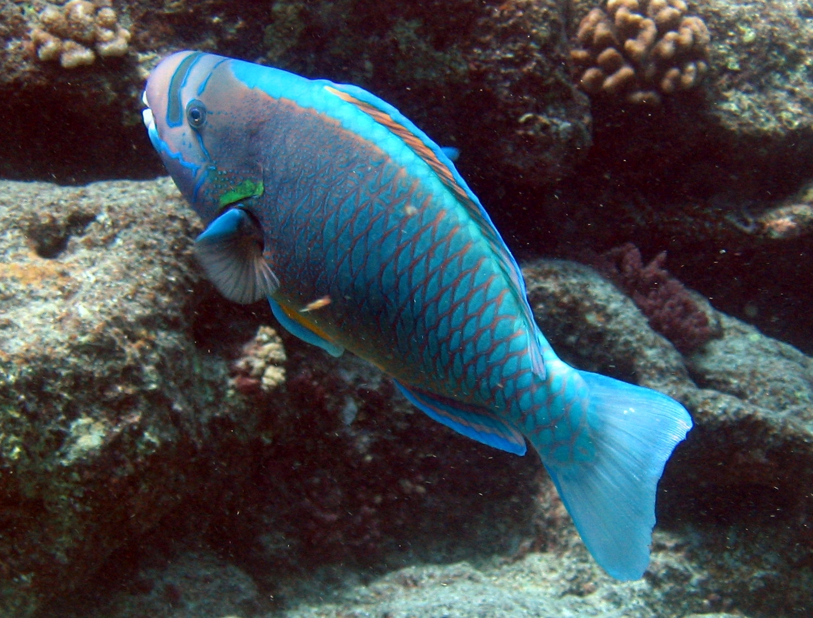 Parrotfish (Chlorurus perspicillatus) Image ID: reef0610, NOAA's Coral Kingdom Collection Location: Northwest Hawaiian Islands